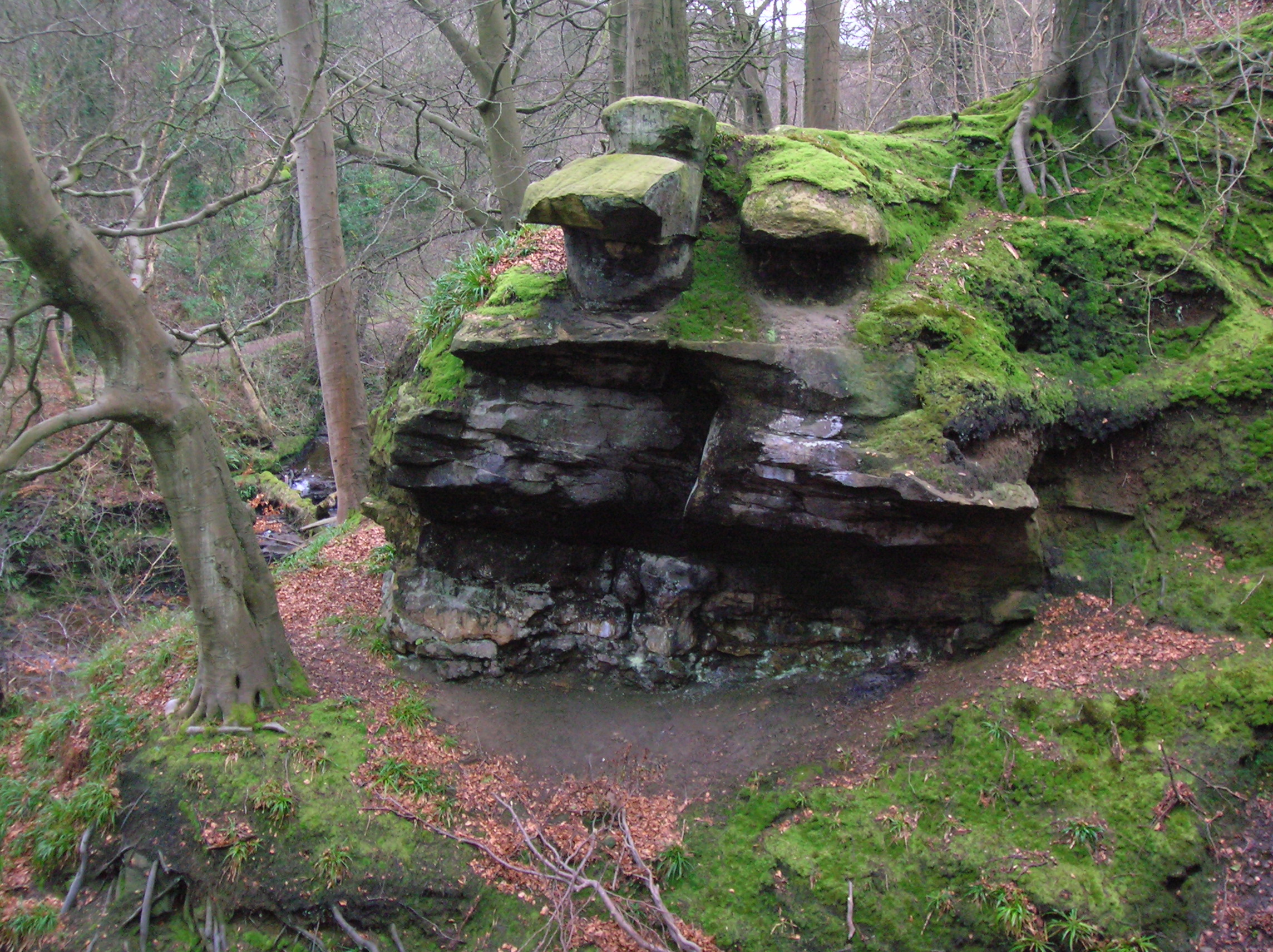 Peden's Pulpit in the Linn Glen, dalry, North Ayrshire, Scotland